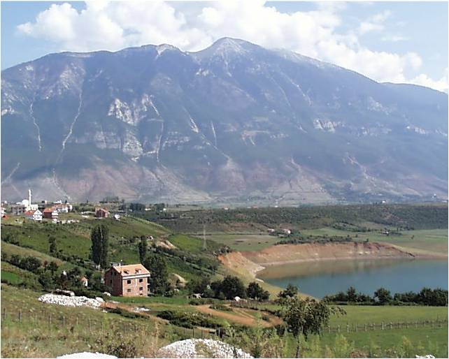 Mt. Gjallica from Kukes, Albania